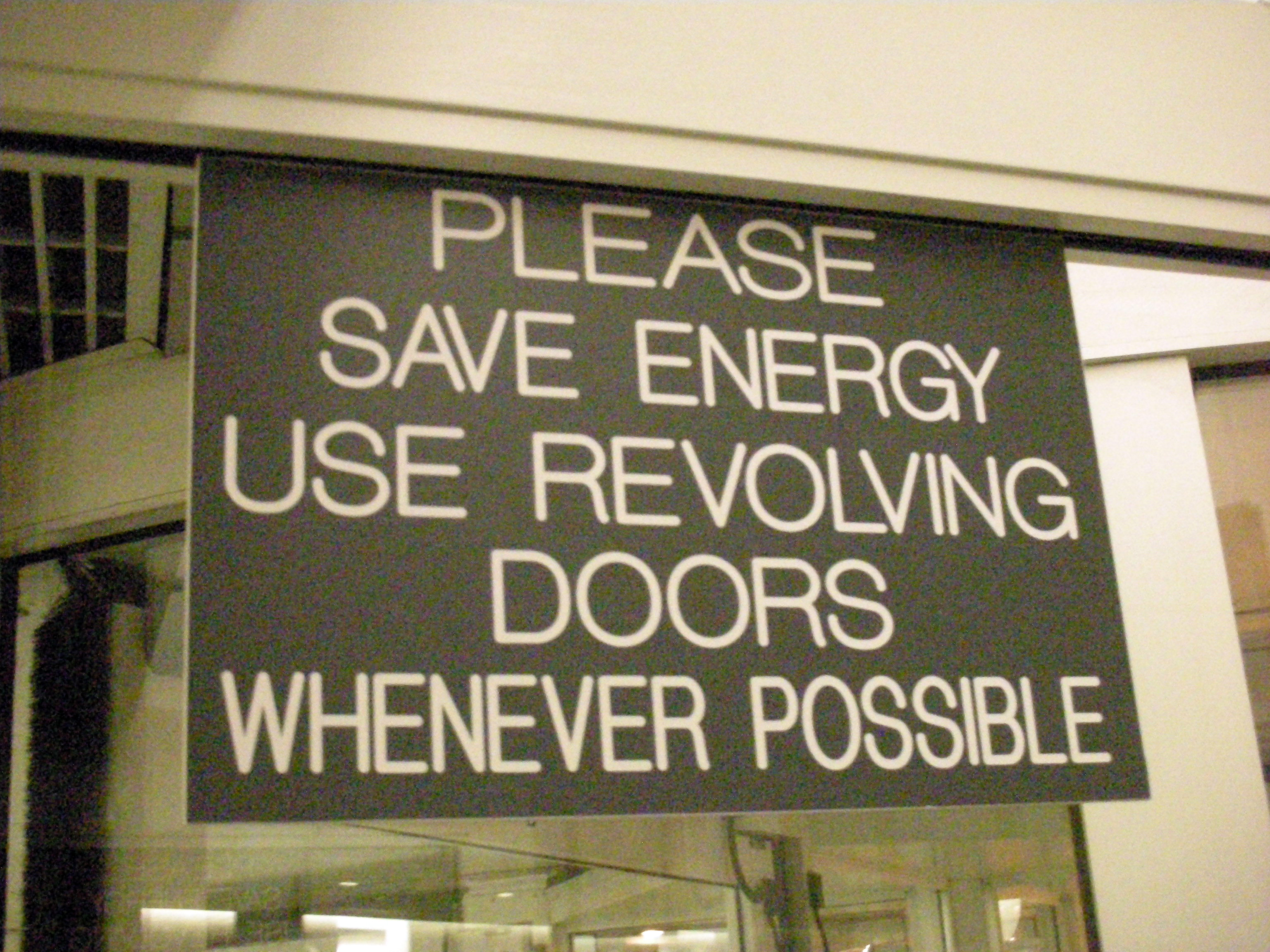 Revolving door sign in Syracuse, New York